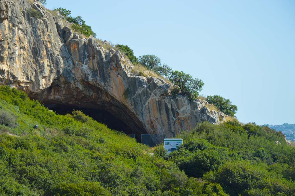 Cave Frahthi - Argolida Greece